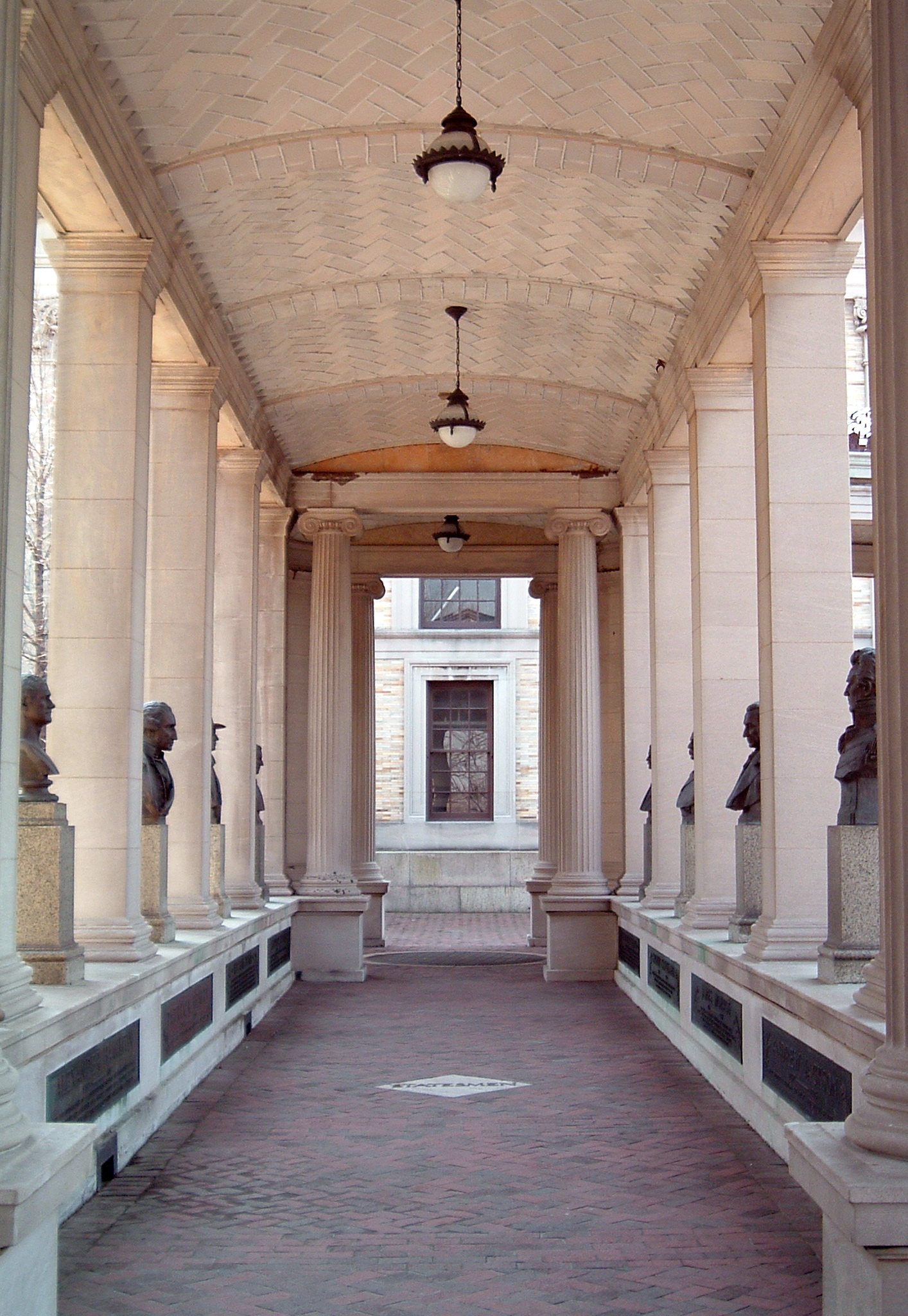 A view of the Hall of Fame for Great Americans showing the colonnade design.